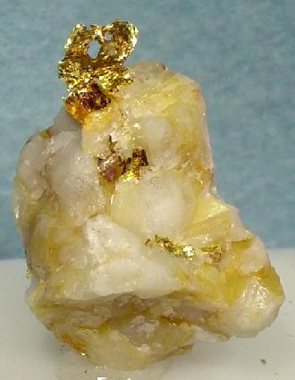 Gold, Quartz (Var.: Milky Quartz) Locality: Buffalo Hump District, Idaho County, Idaho, USA (Locality at ) Size: 2.5 x 1.8 x 1.8 cm. An aesthetic plume of rich gold leaves rests atop a helmet-like, milky quartz matrix. Ex. Allan Young Thumbnail Collection.